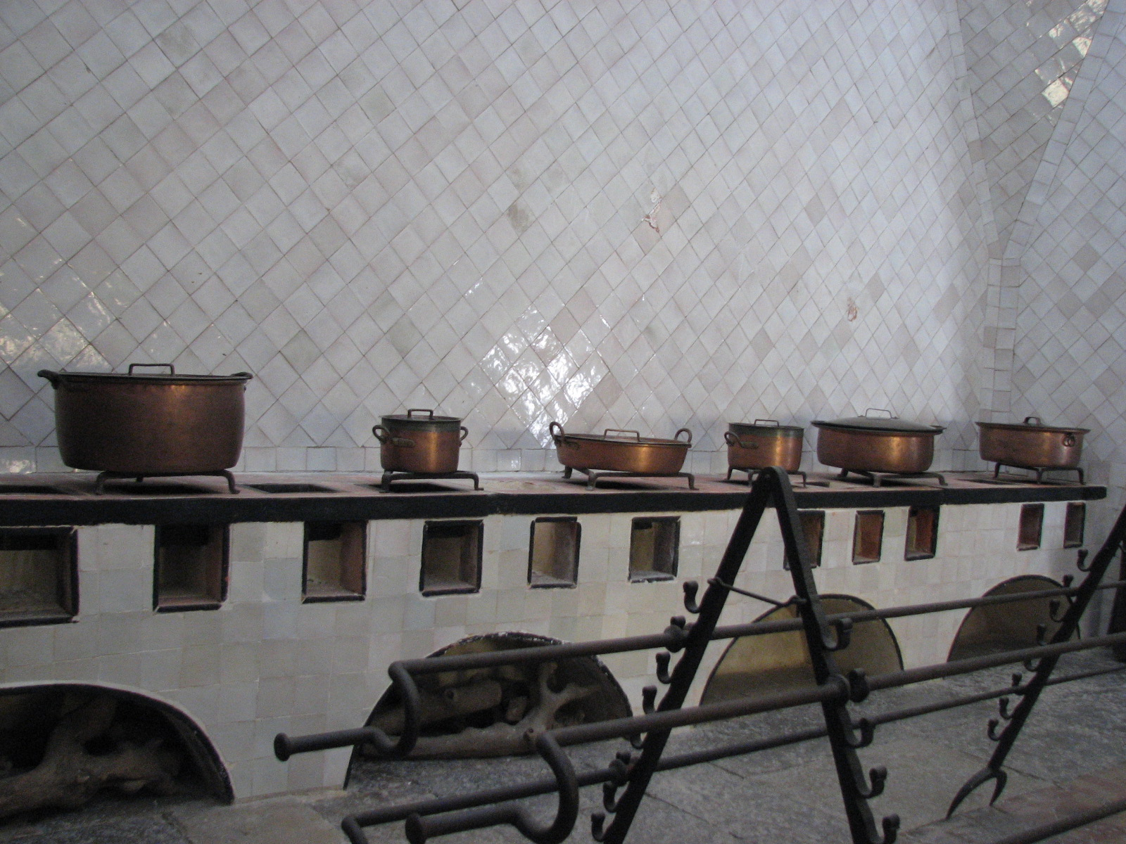 National Palace of Sintra kitchen